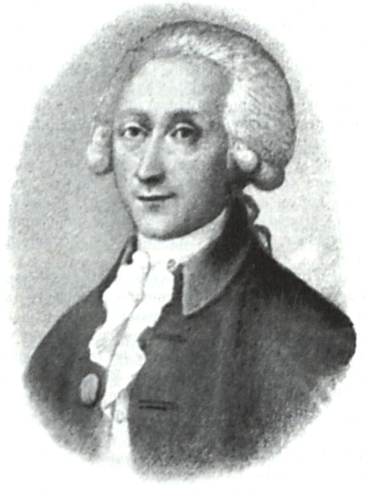 Caspar Friedrich von Hofmann (1740-1814), Wetzlar